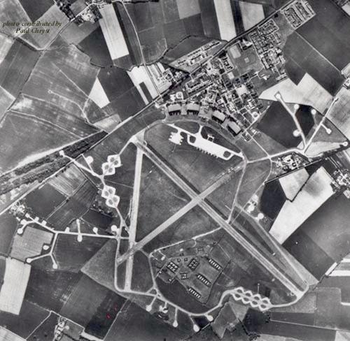 Aerial photograph of Royal Air Force Station Bassingbourn, England.